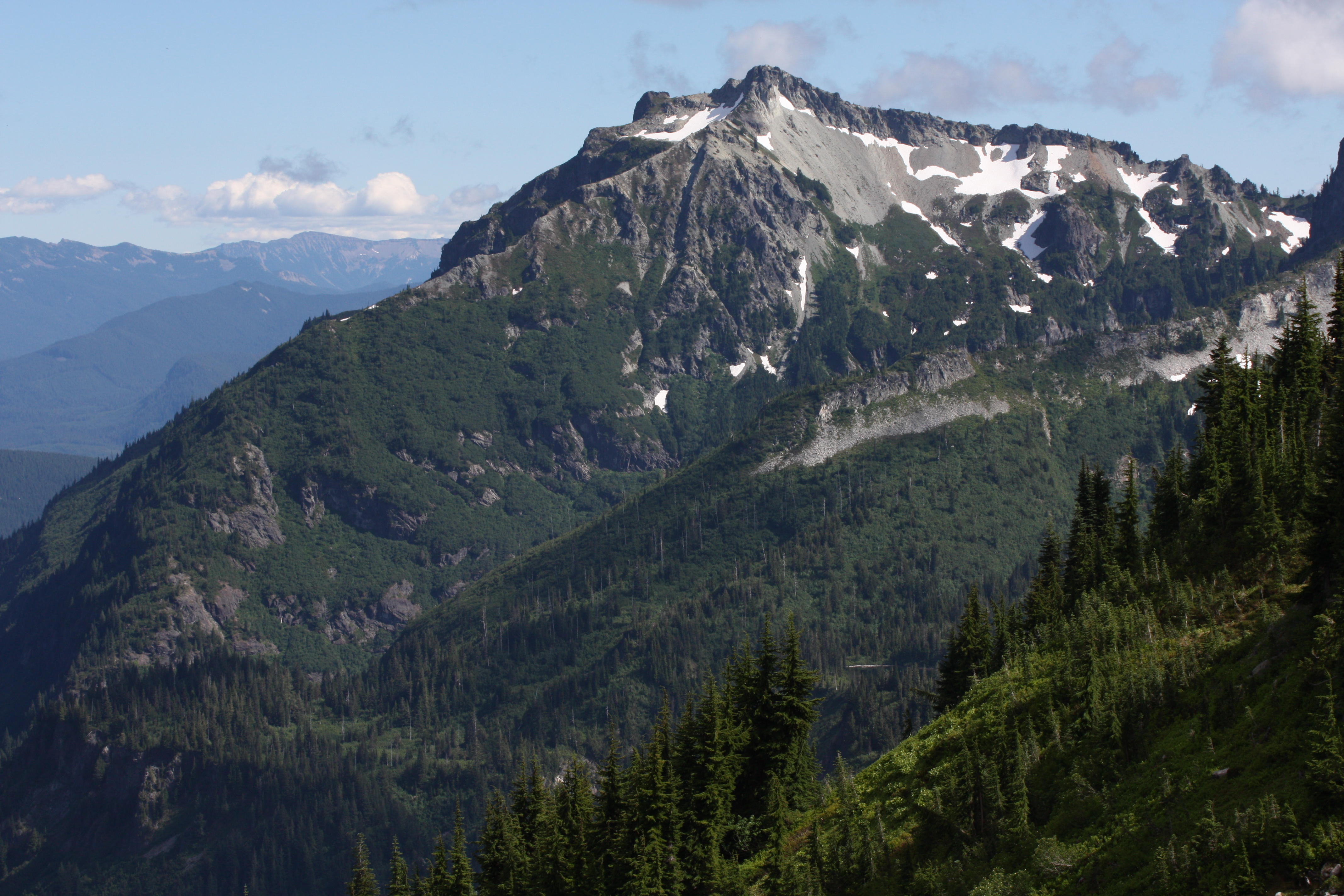 Stevens Peak (6560+ feet, 1999+ m); north ridge of Unicorn Peak (middle distance)